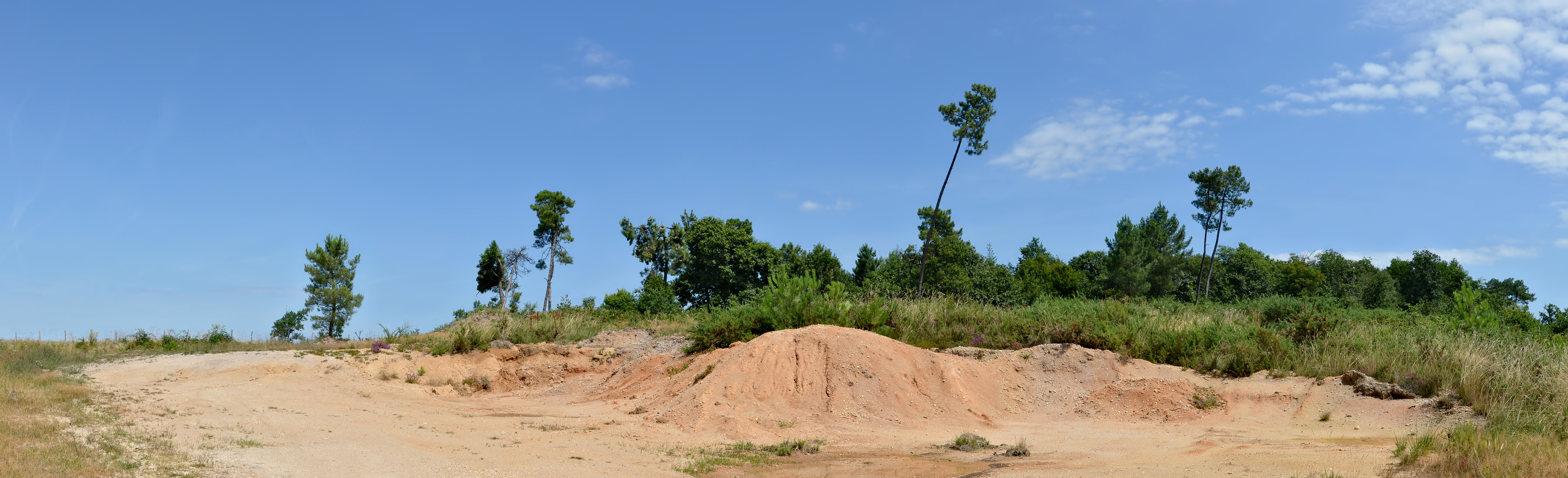 Sandpit near road D 10, Pérignac, Charente,France.